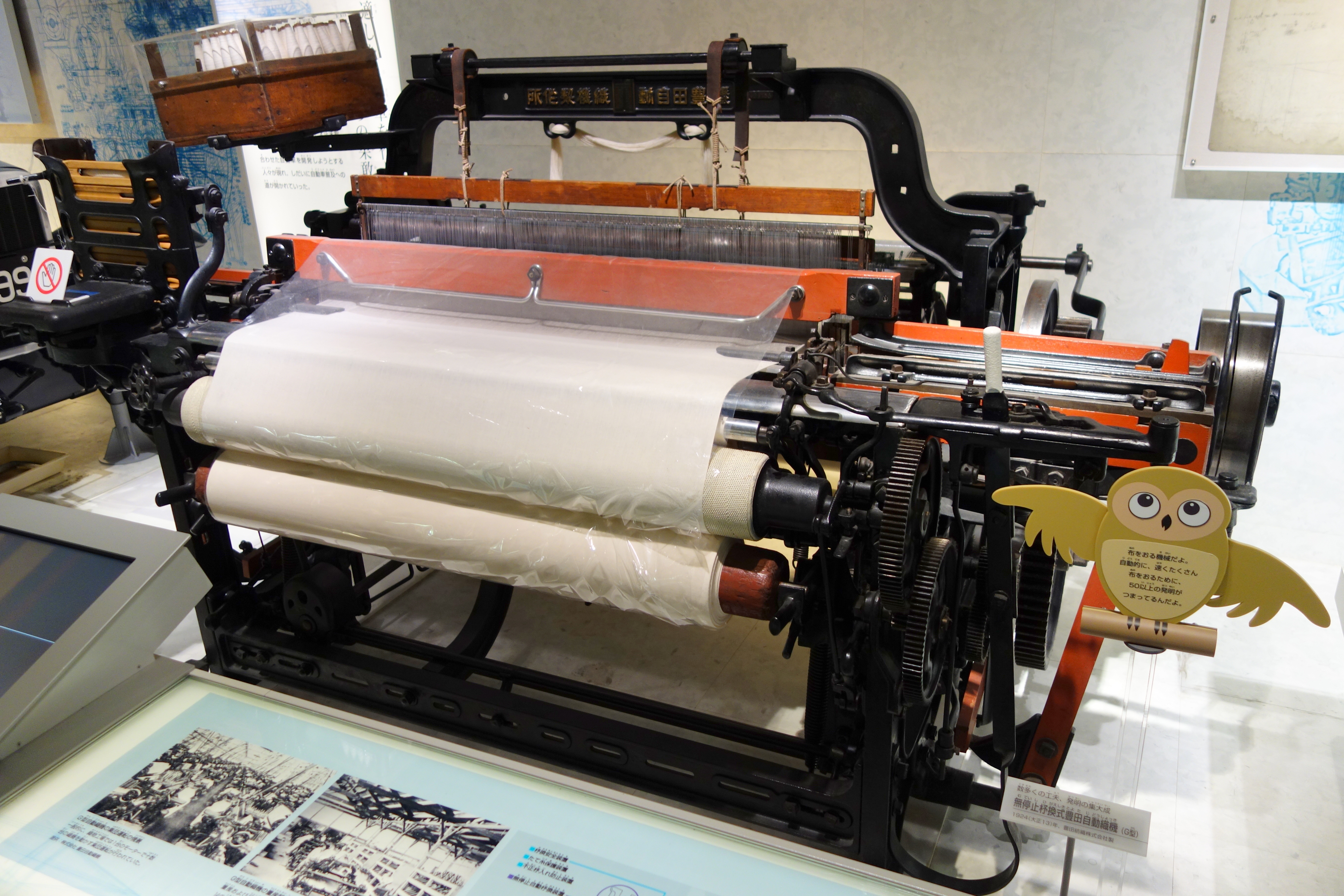 Exhibit in the National Museum of Nature and Science, Tokyo, Japan.